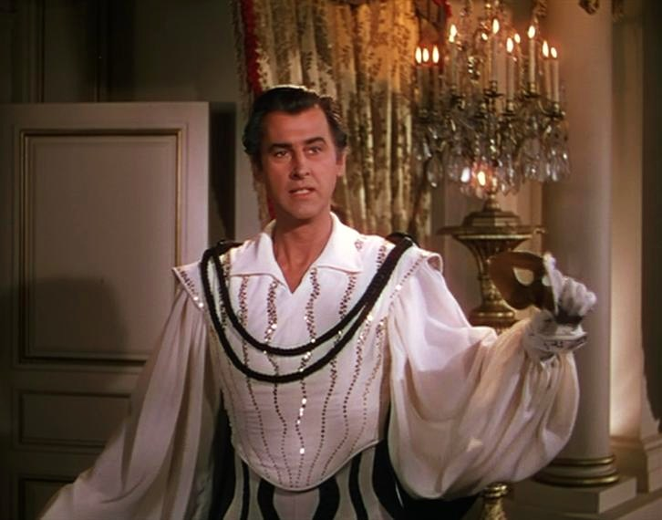 Stewart Granger in Scaramouche - trailer (cropped screenshot)